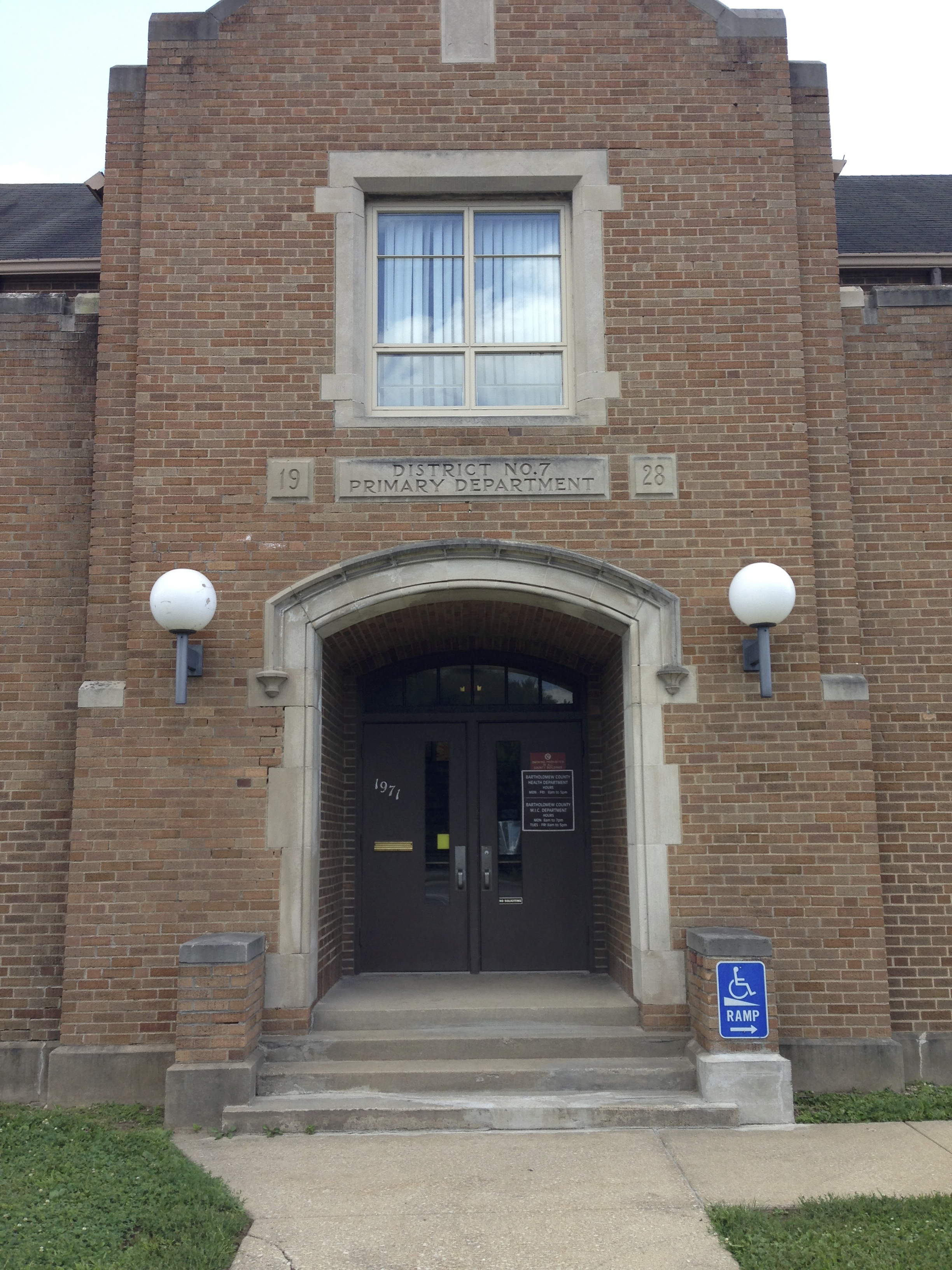 A detail of the former State Street Elementary school, built in 1928 designed by Norman Hill. This image depicts the main entrance to the building.